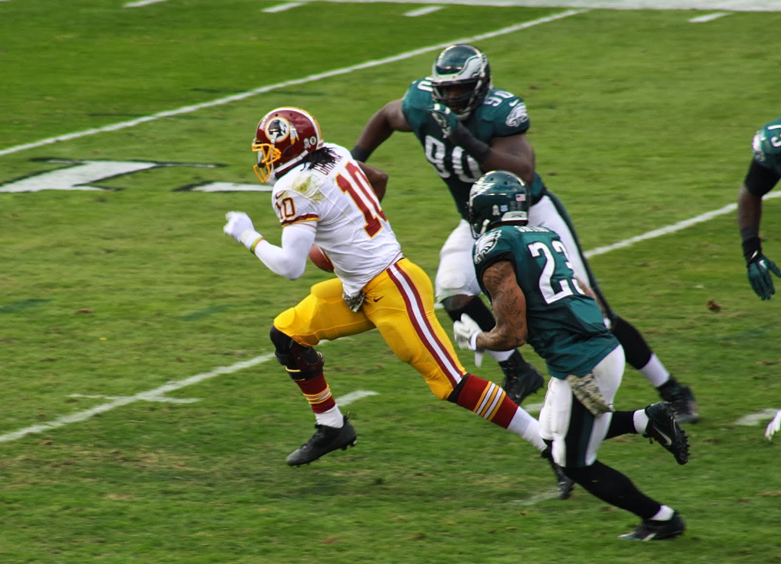 Robert Griffin III on a read-option run during the Redskins 24-16 loss to the Eagles in the 2013 season.